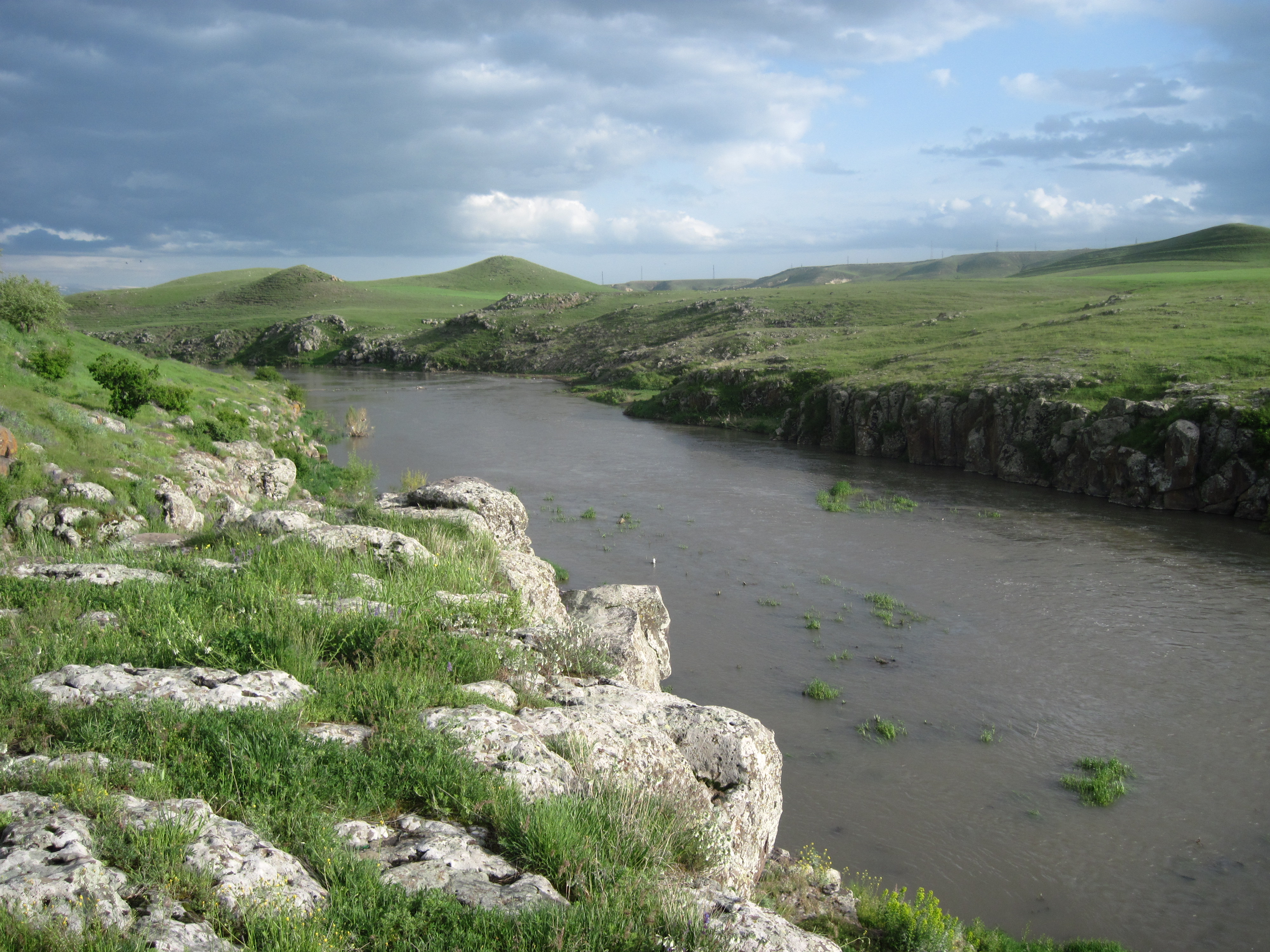 Akhurian River It originates in Armenia and flows from Lake Arpi